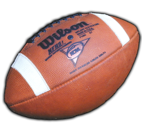 Ball used in College football